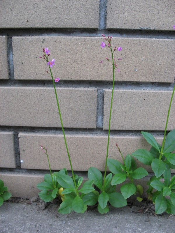 Photograph of Talinum crassifolium, taken in Machida city, Tokyo, Japan.